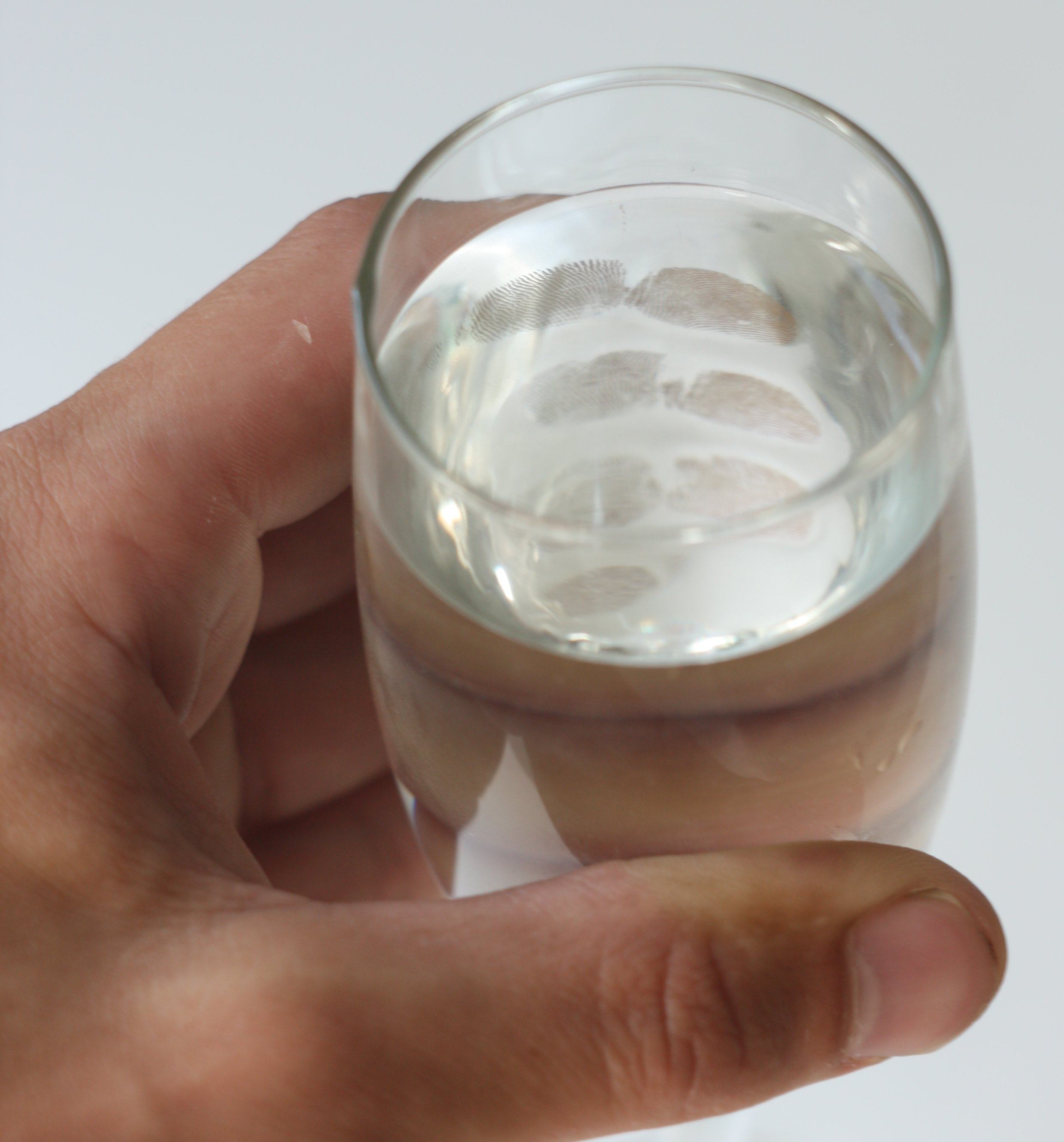 Fingerprints on a glass of water made visible by total internal reflection